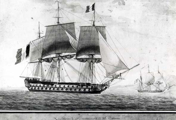 French ship Bucentaure. Anonymous watercolour made at the request of Bucentaure's captain, Captain Jean-Jacques Magendie. Frigate in the back reported to be a Africa, to be verified.